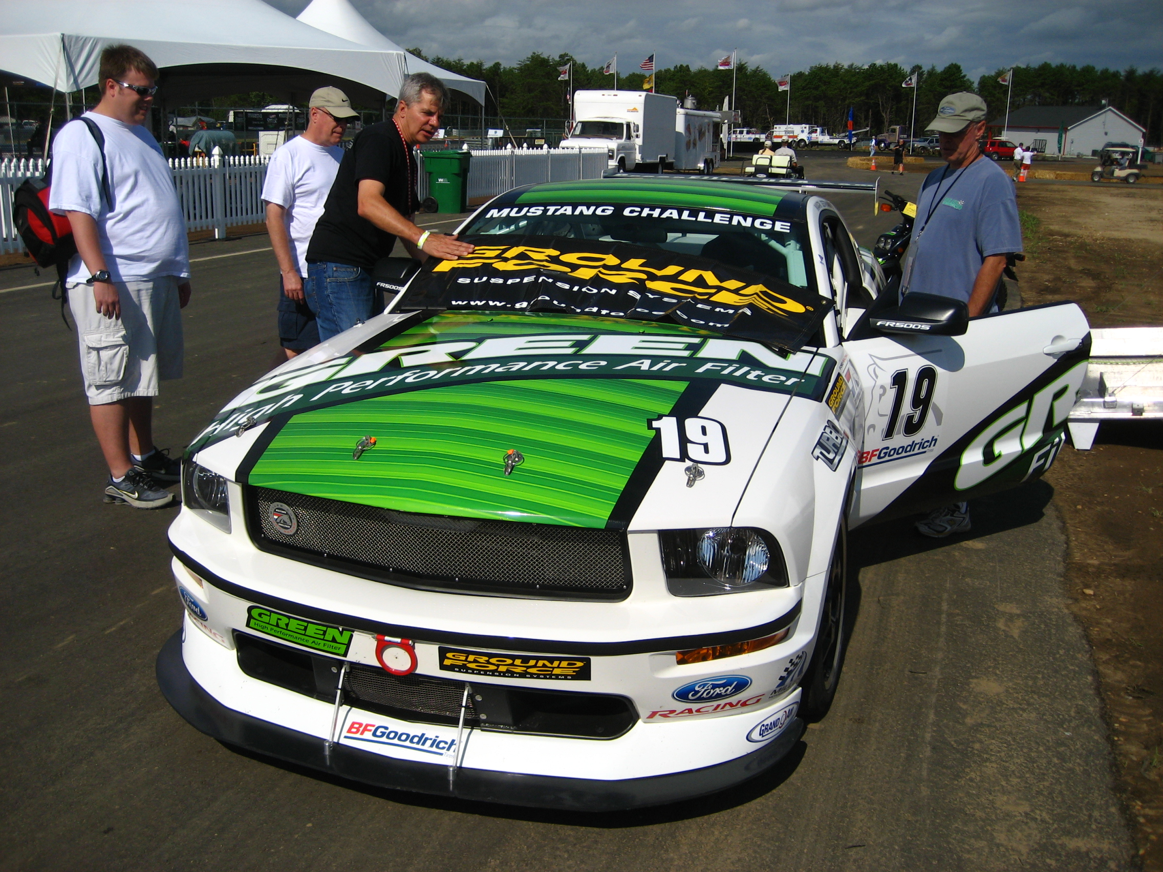 A Ford Mustang FR500S for the Mustang Challenge at the New Jersey Motorsports Park.